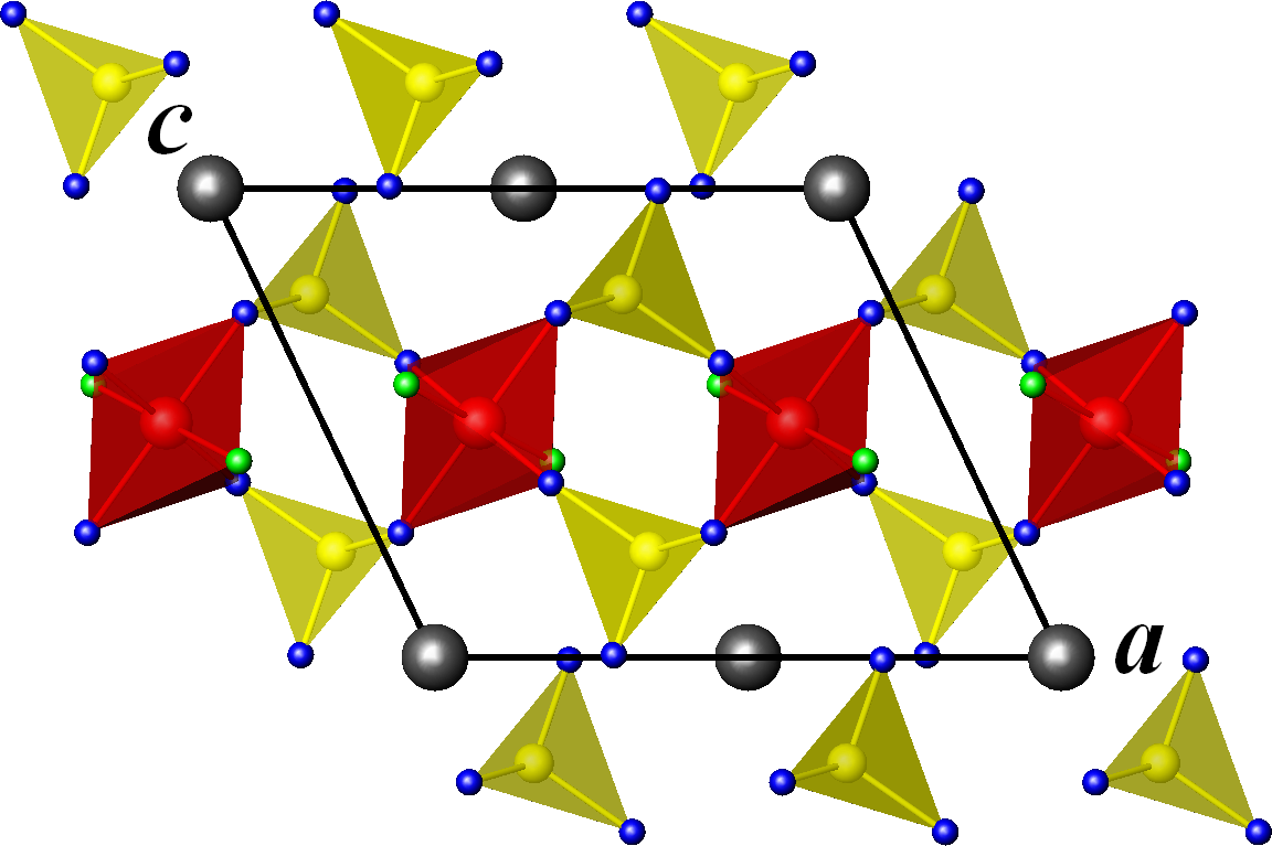 Crystal structure of mounanaite, PbFe+32(VO4)2(F,OH)2, C2/m, projected onto the (a,c) plane. Gray: lead atoms, red: iron atoms, yellow: vanadium atoms, blue: oxygen atoms, green: fluorine atoms. The hydrogen atoms are not represented. Data source: Werner Krause, Klaus Belendorff, Heinz-Jürgen Bernhardt, Catherine McCammon, Herta Effenberger and Werner Mikenda (1998) "Crystal chemistry of the tsumcorite-group minerals. New data on ferrilotharmeyerite, tsumcorite, thometzekite, mounanaite, helmutwinklerite, and a redefinition of gartrellite", European Journal of Mineralogy, 10(2): 179-206.